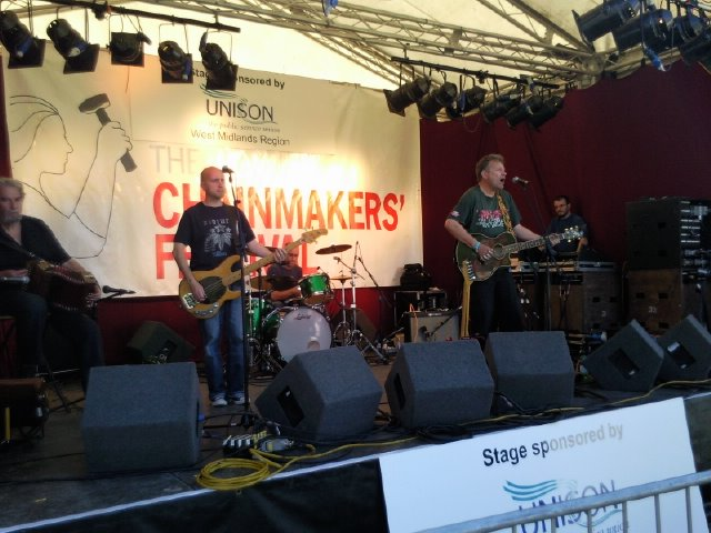 Robb Johnson playing live in 2009. Source I took this picture myself.